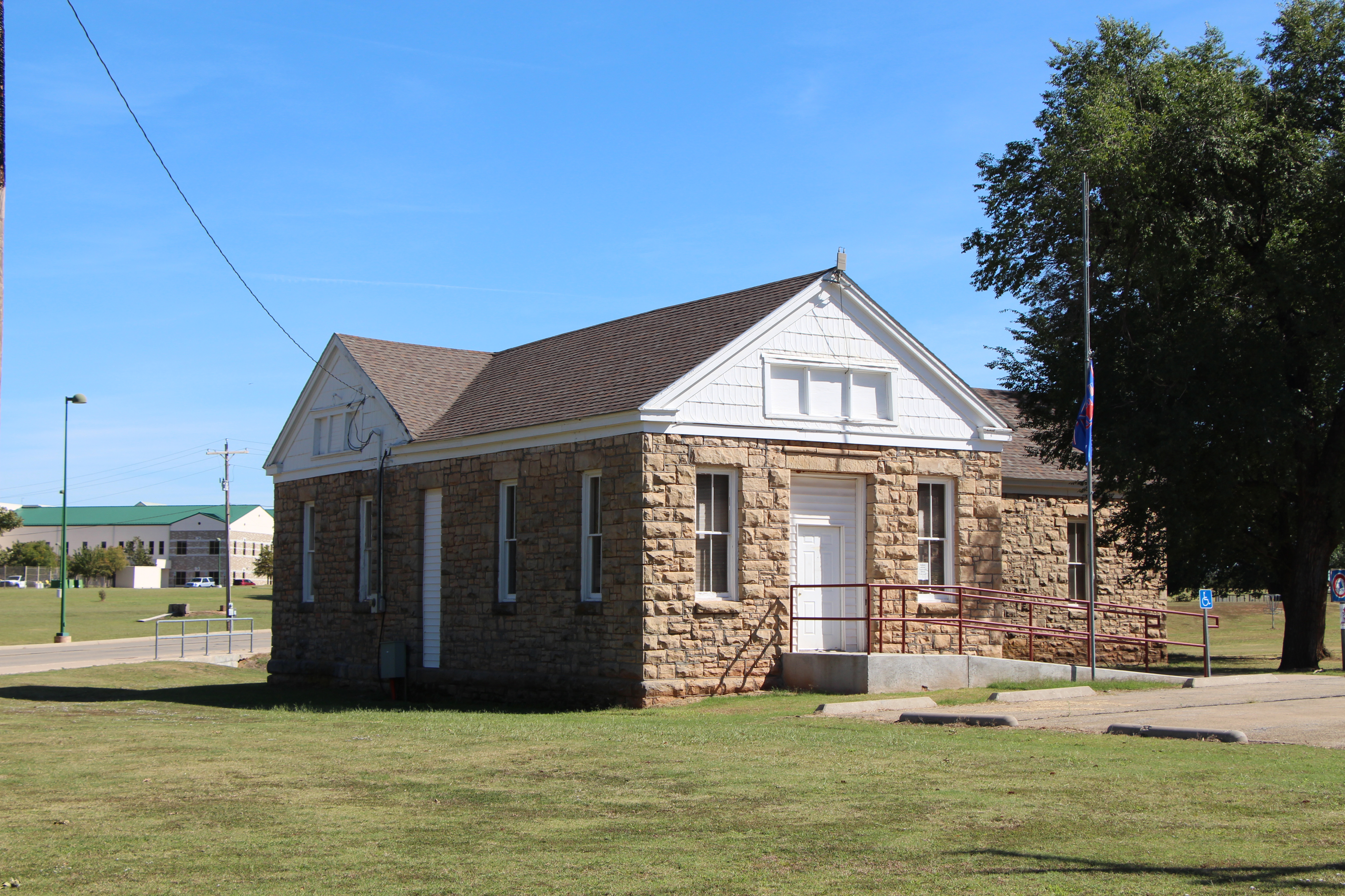 Tribal Court/Originally "Old Laundry"